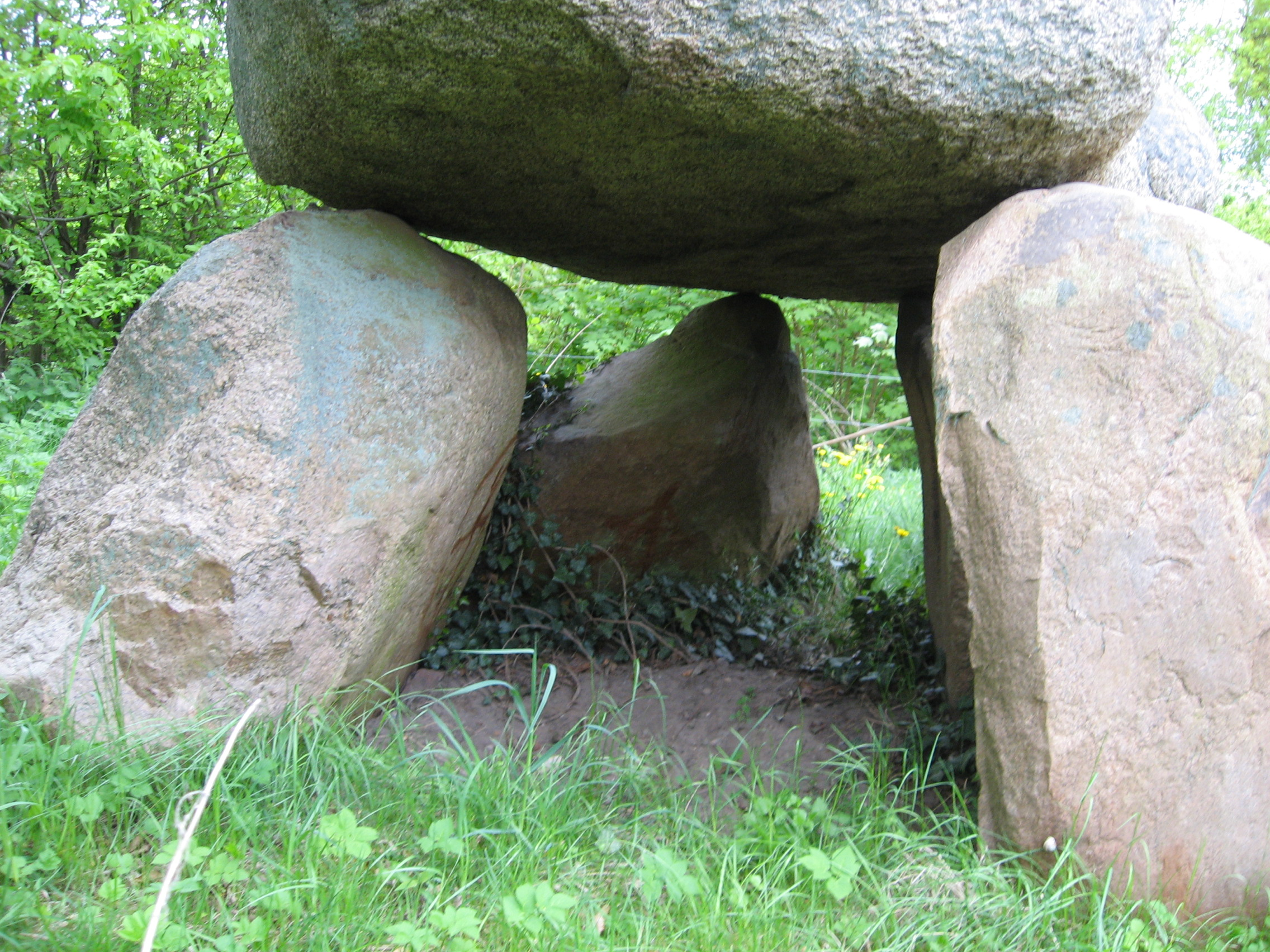 Remains of a Stone Age thomb at Årslev west of Århus, Denmark. Seen from north towards south.